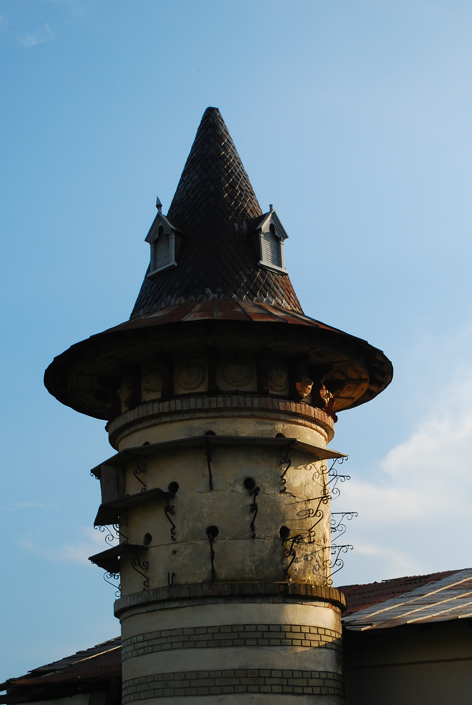 Pigeonry in the yard of the Cândeşti mansion, Buzău County, Romania